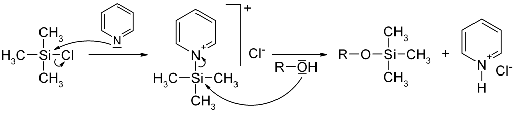 O-silylation of alcohols using pyridine as base